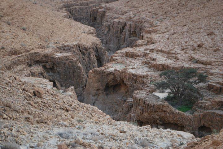 In Nahal Mishmar in the Israeli Judean Desert: a view from the red-marked trail into the creek that contains the blue-marked trail.